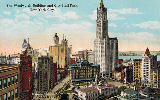 Glossy color postcard of "The Woolworth Building and City Hall Park, New York City". Published by The American Art Publishing Co., New York city, #R-41094. back reads "City Hall Park from the Municipal building, and Park Row looking toward the Woolworth Building and Broadway. City Hall Park covers an area of 8 1/4 acres is the scene of all official ceremonies, from the celebration of Perry's Victory on Lake Erie 1812 to opening of Subway on October 27, 1904. Department of City Government occupying 15 buildings in end around the Park."